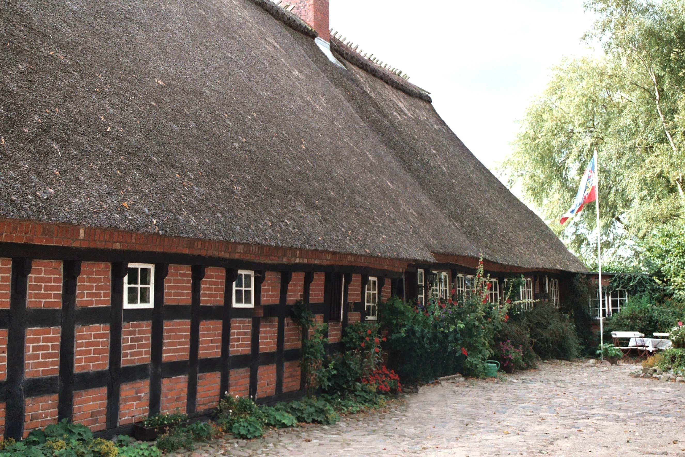 Wagersrott, Fachhallenhaus This is a photograph of an architectural monument.It is on the list of cultural monuments of Wagersrott